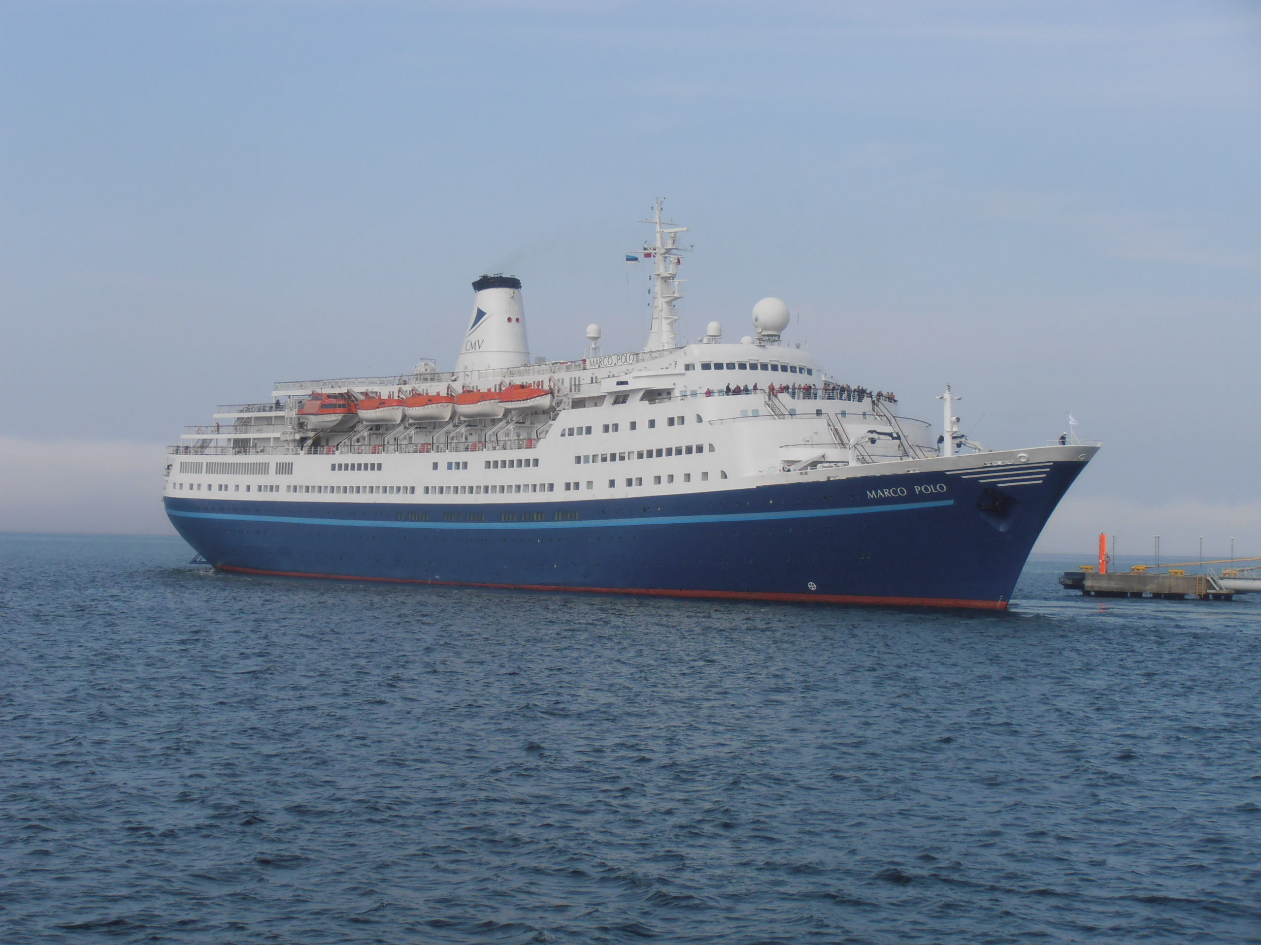 The cruise ship Marco Polo departing Tallinn 10 May 2013